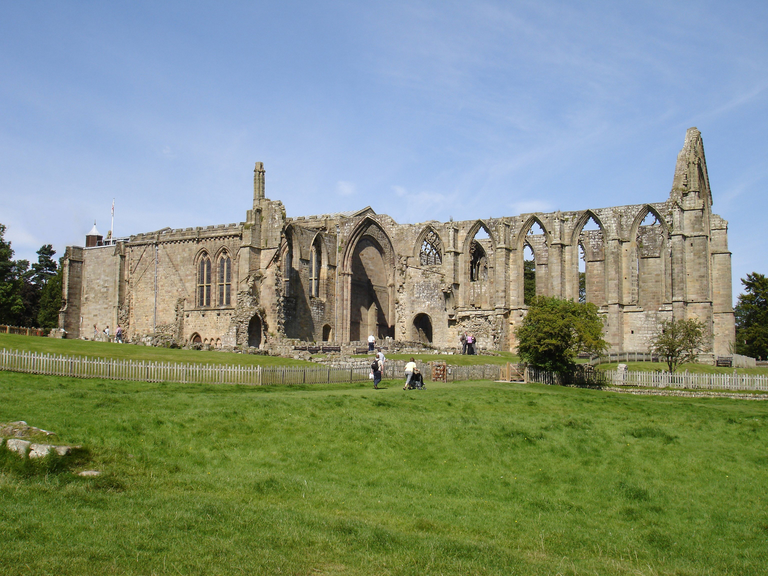 Photograph of Bolton Priory, Bolton Abbey, North Yorkshire